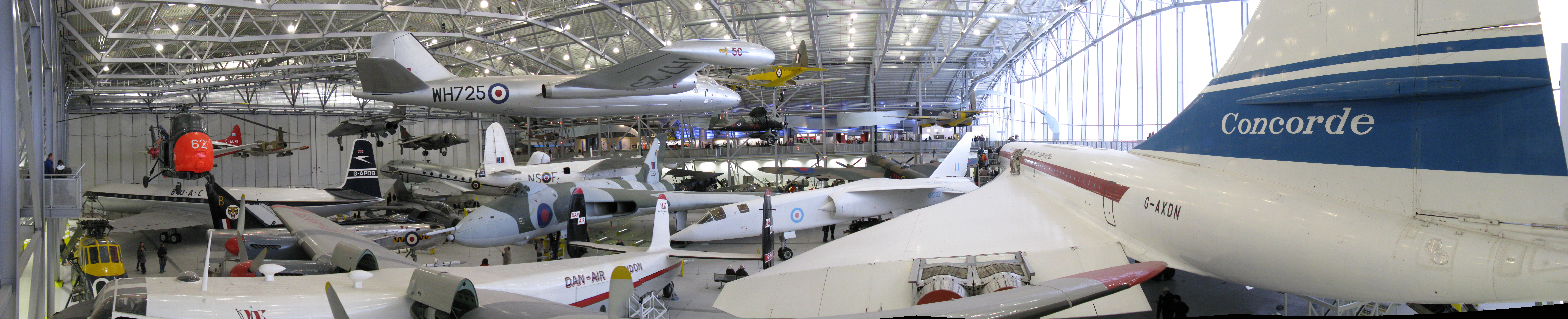 Panoramic shot of the AirSpace exhibition hall at Imperial War Museum Duxford